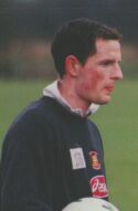 Allan Johnston, taken during training with Sunderland